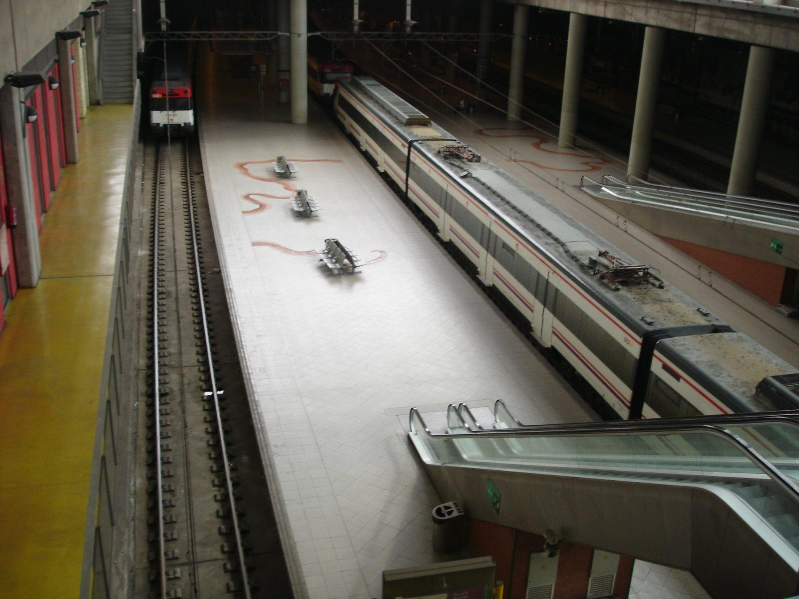 Castellon train station interior.